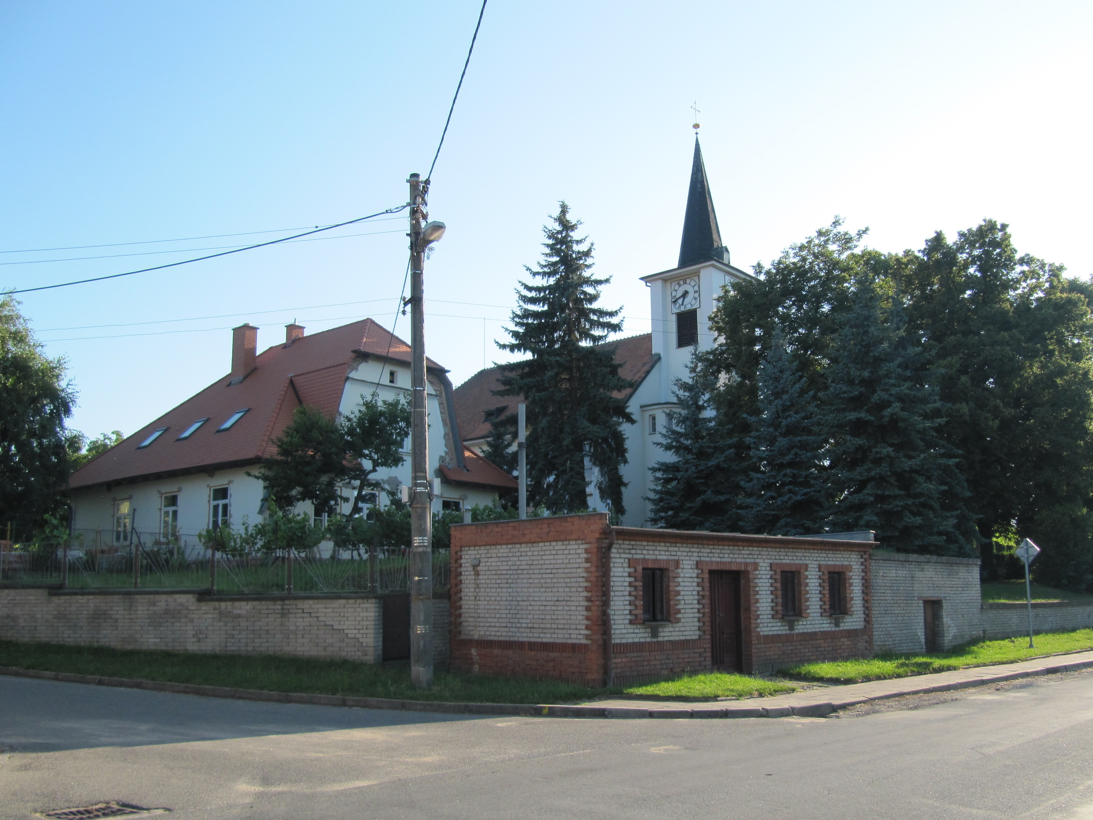 Vacenovice in Hodonín District, Czech Republic. Church and presbytery. This photograph was taken within the scope of the third year of the 'Czech Municipalities Photographs' grant.